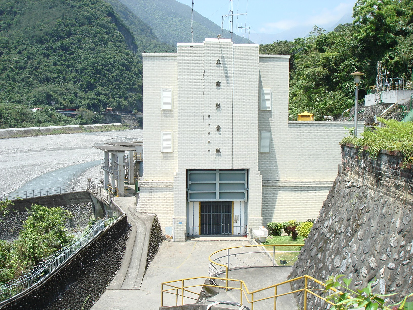 Taiwan power Company The Eastern Power plant Li-Wu Hydroelectricity Gate